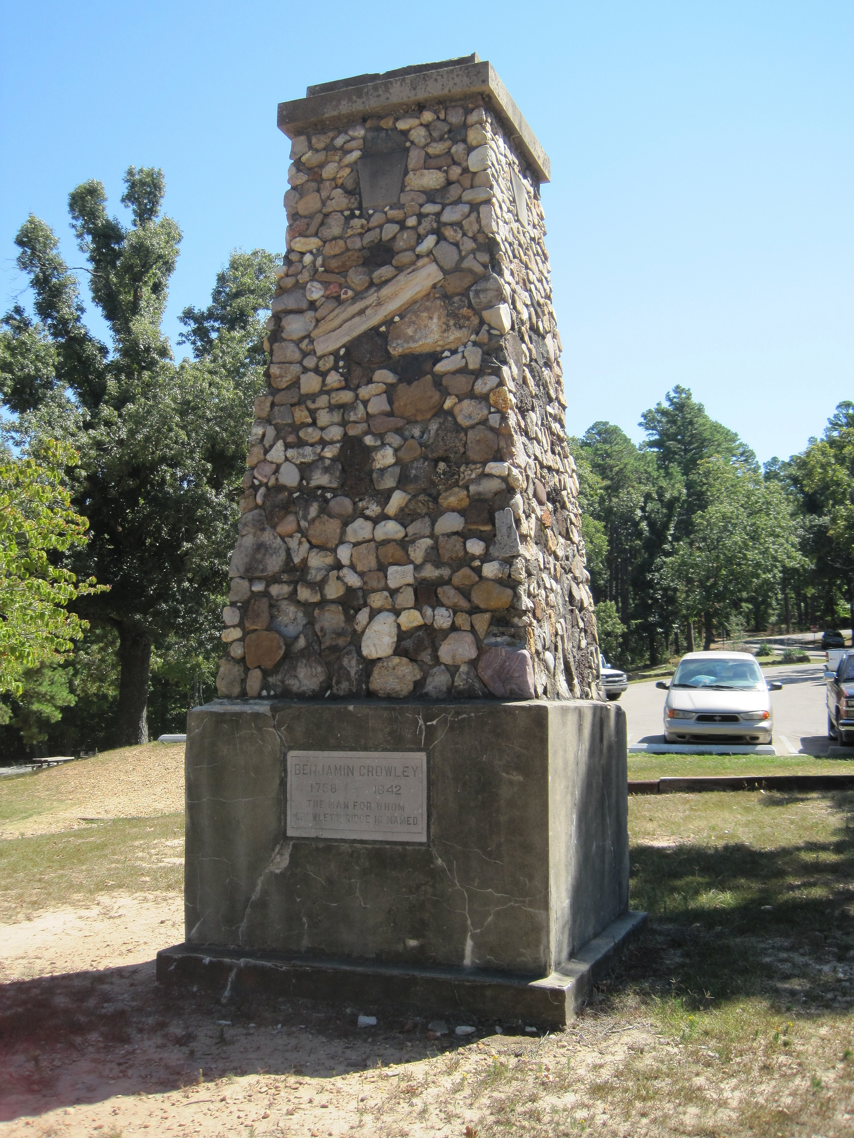 Shiloh Cemetery at Crowleys Ridge State Park in Paragould, Arkansas. The cemetery is the oldest cemetery in Green County, Arkansas. Benjamin Crowley, whom Crowley's Ridge is named after, as well as other first settlers are buried there. Only one original grave marker remains at the cemetery. Grave of Benjamin Crowley